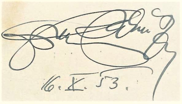 Signature of the Austrian composer and conductor, Franz Salmhofer, 16 October 1953